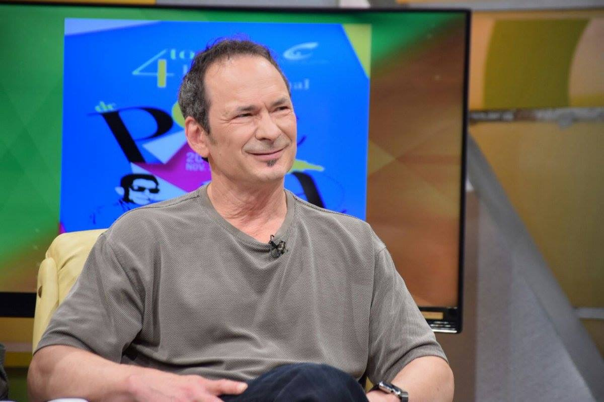 Forrest Gander at Santo Domingo Poetry Festival